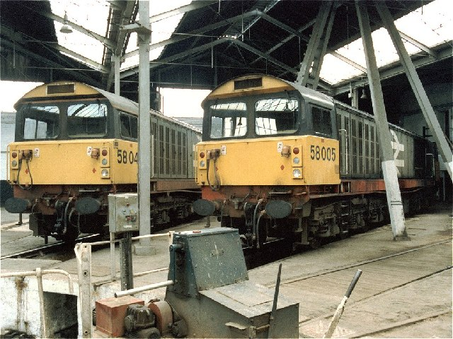 Barrow Hill Railway Depot Inside the Roundhouse. This British Railways depot closed but was then re-opened by a group of railway enthusiasts